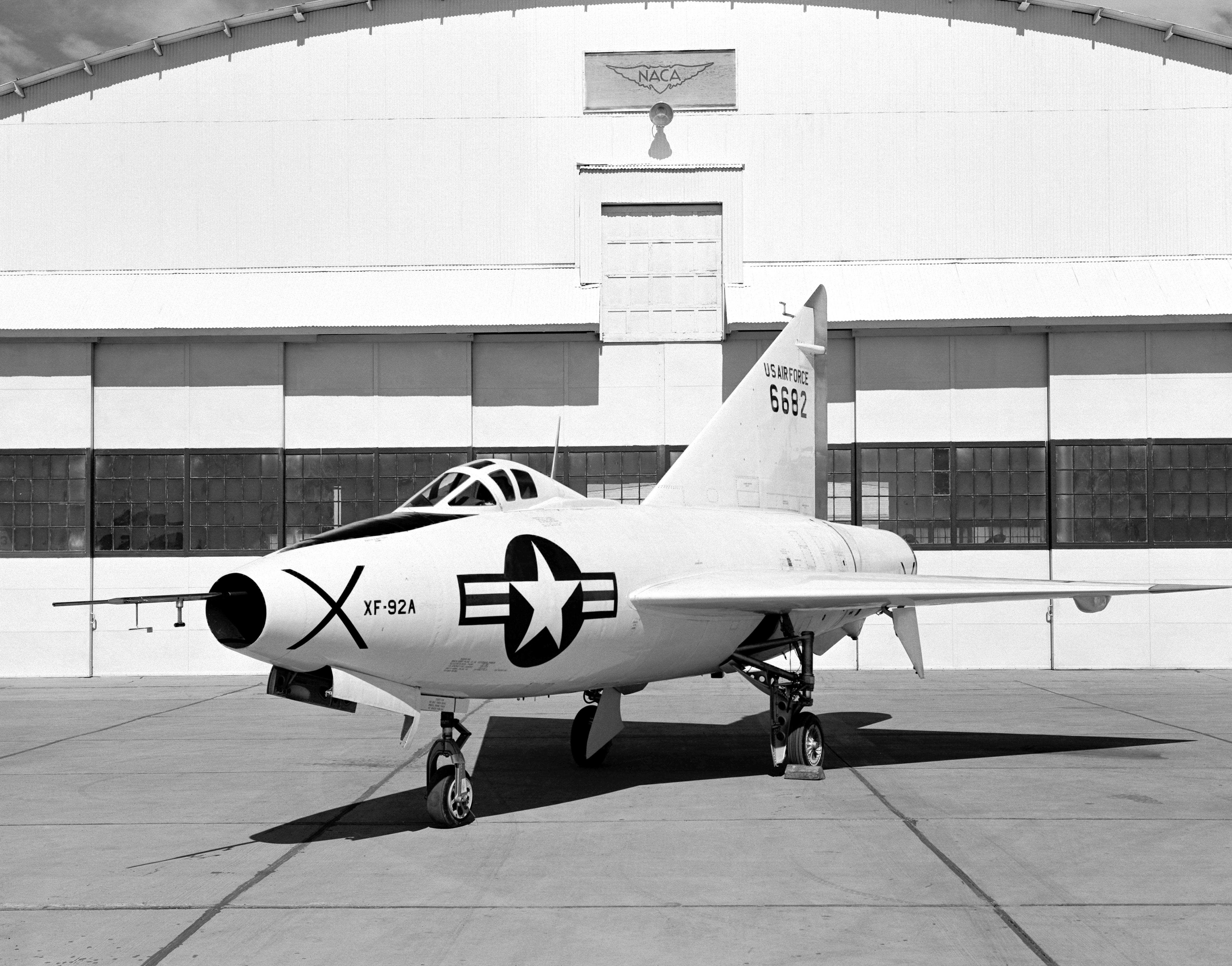 This NACA High-Speed Flight Research Station photograph of the XF-92A was taken at the South Base of Edwards Air Force Base. The photograph shows the pitot-static probe, used to measure airspeed, Mach number, and altitude, mounted on a noseboom protruding from the aircraft's nose engine inlet. Also attached to the pitot-static-probe portion of the noseboom are flow direction vanes for sensing the aircraft's angles of attack and sideslip. The Convair XF-92A aircraft was powered by a Allison J33-A turbojet engine with an afterburner, and was unique in having America's first delta wing. The delta wing's large area, thin airfoil cross section, low weight, and structural strength made this design a promising combination for a supersonic airplane.